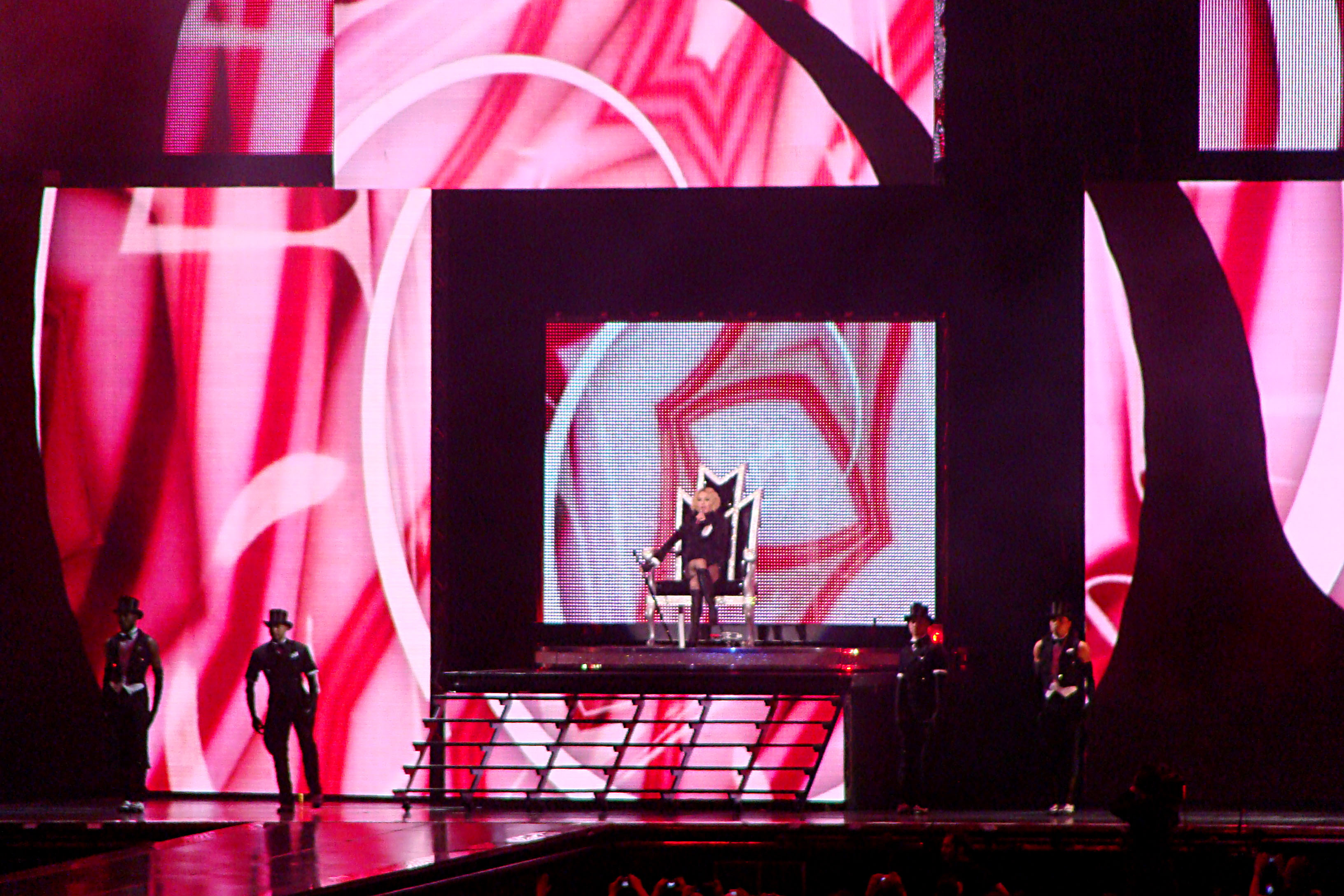 madonna 2008-10-30 vancouver